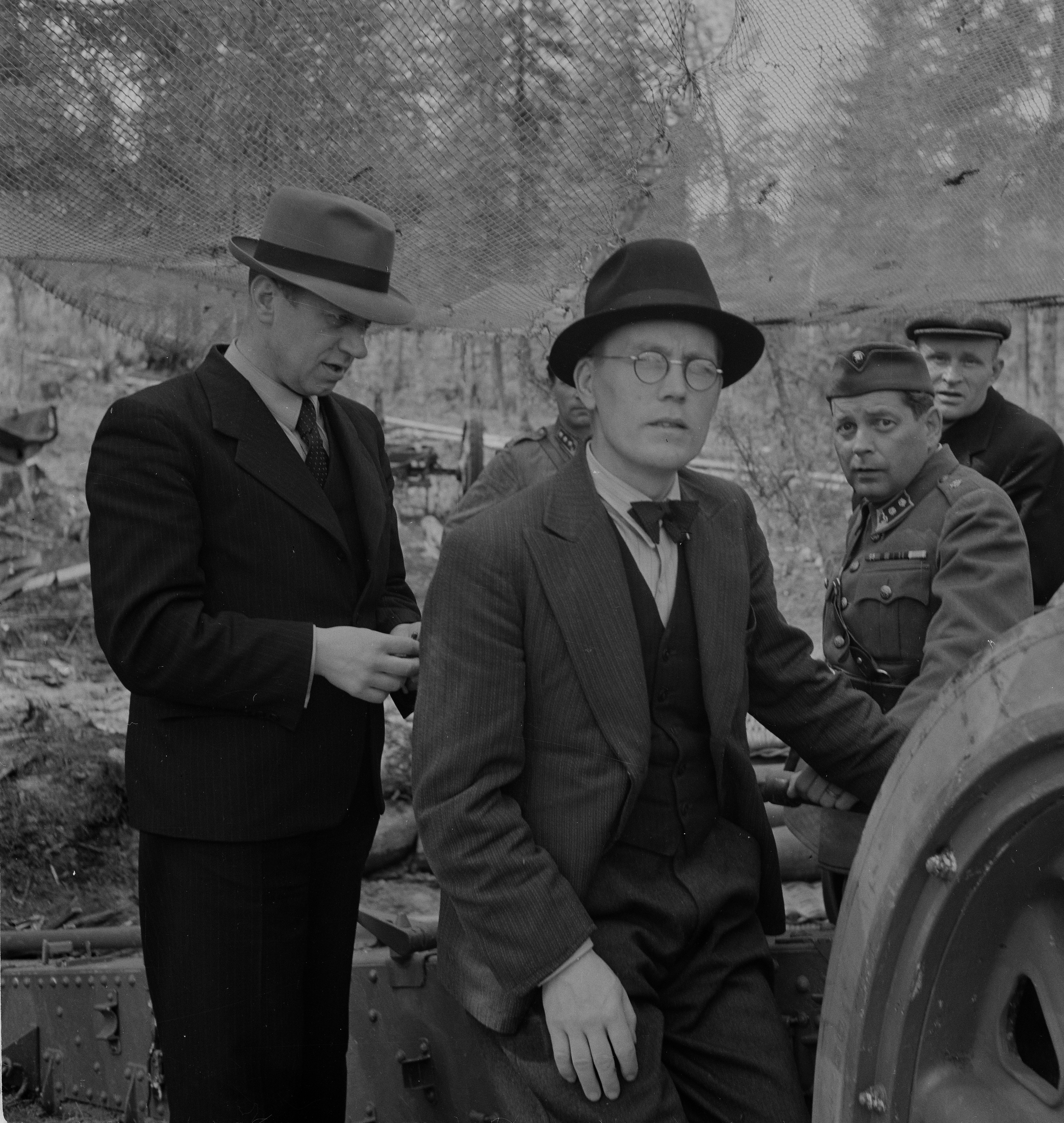 Photograph of the Finnish poet and scholar Lauri Viljanen (1900–1984) in Karhumäki during World War II. To his left, Yrjö Kivimies; right, Sulho Ranta.